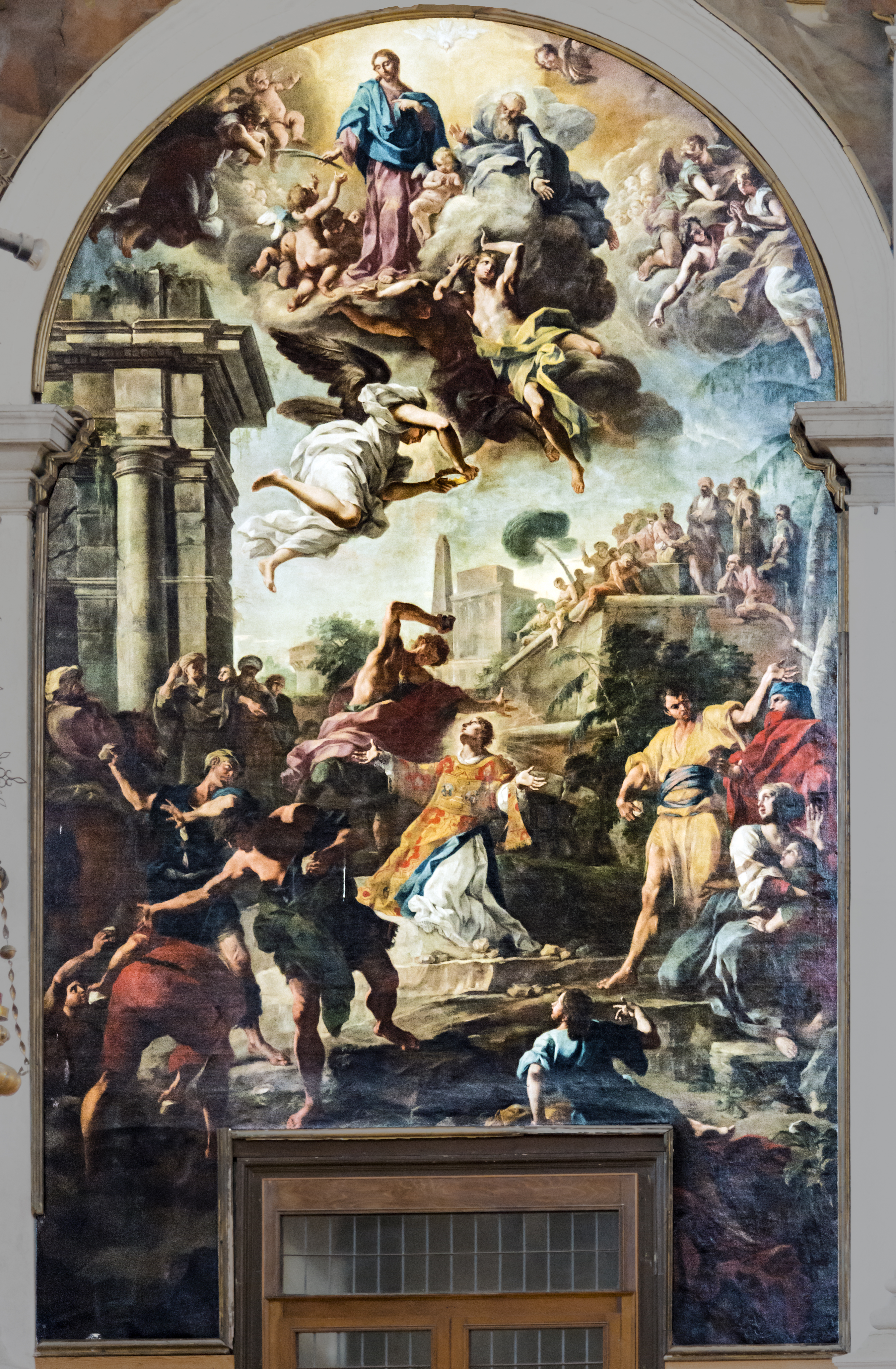 The stoning of St. Stephen by Sante Piatti (1687-1747), San Moisè, Venice 1727.